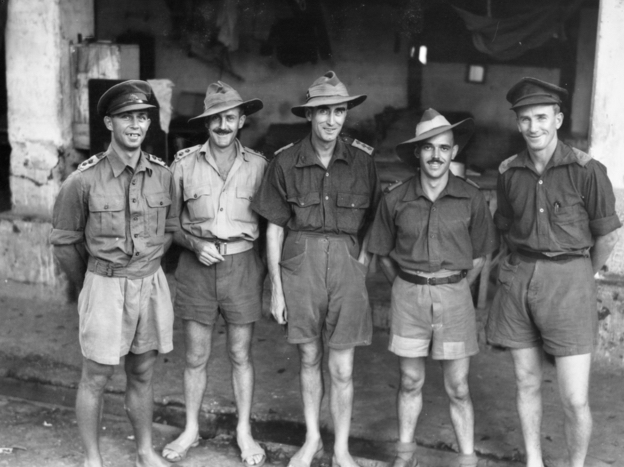 A black and white group photograph of five officers of the 2/3rd Machine Gun Battalion who were captured as part of "Blackforce" on Java in March 1942. Taken after they were liberated in September 1945.